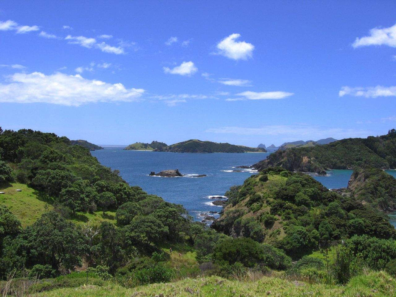 View of the ocean from the top of a small island in the Bay of Islands, Northland, North Island, New Zealand. The photo is taken from Motukiekie Island, looking nor-east-ish. Piercy Island (Motukokako) with its Hole in the Rock, and Cape Brett, and are way out there in the right far distance. The island mid centre is Waewaetorea, which is partly obscuring Okahu Island lying to its left. The Okahu Passage is on the left and the Waewaetoria Passage is to the right but mainly obscured. The little island nearer camera at centre, a bunch of rocks really, is a favourite crayfish diving spot. The peninsula reaching into the photo from the middle of the right hand side is part of Urupukapuka Island.